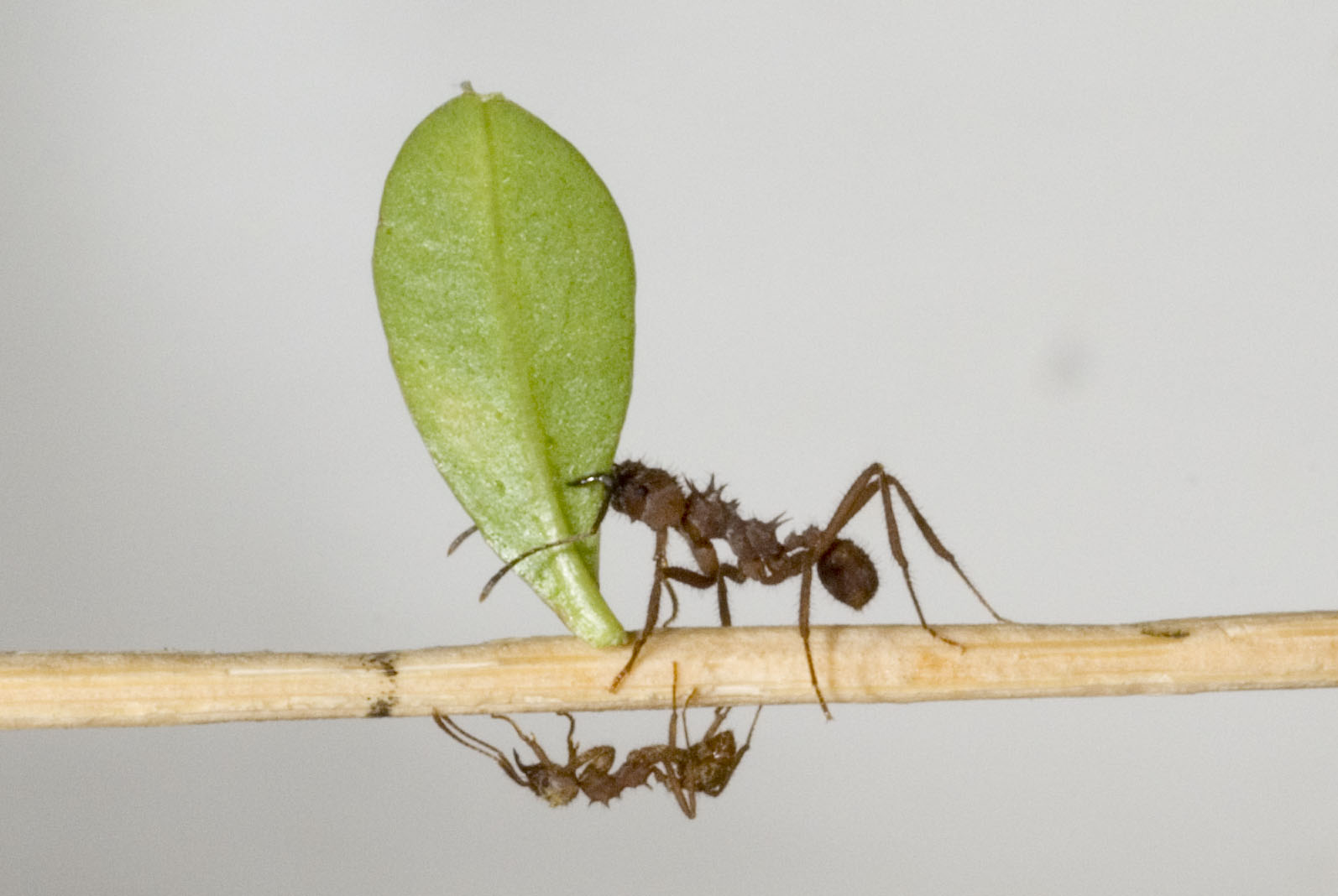 Leafcutter ant Acromyrmex octospinosus on a stick carrying a leaf